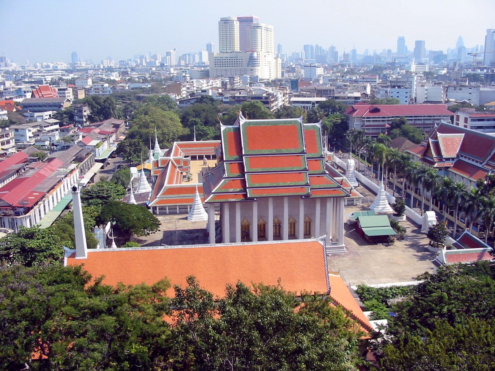 Wat Saket (Temple of the Golden Mount) viewn from the Golden Mount, Bangkok, Thailand